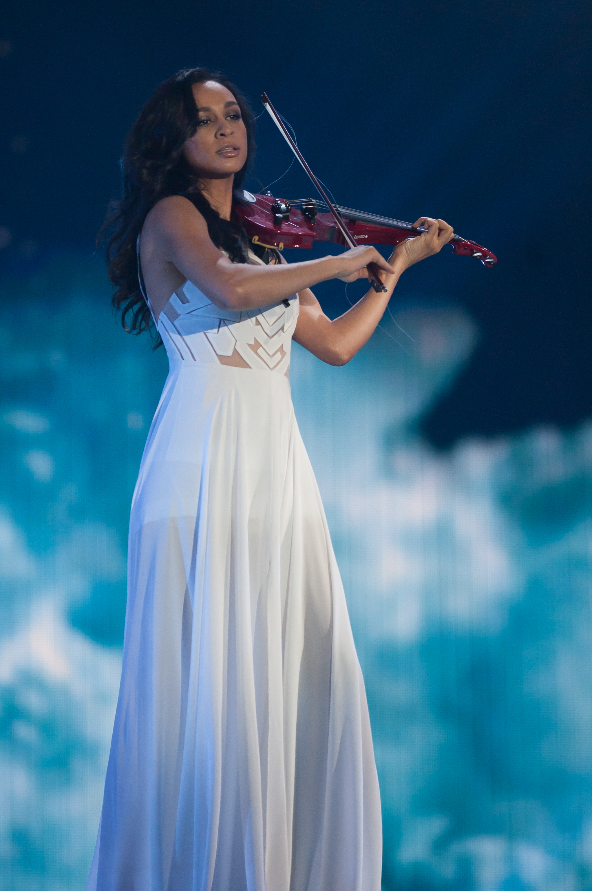 Eurovision Song Contest Vienna 2015: Uzari & Maimuna, Belarus